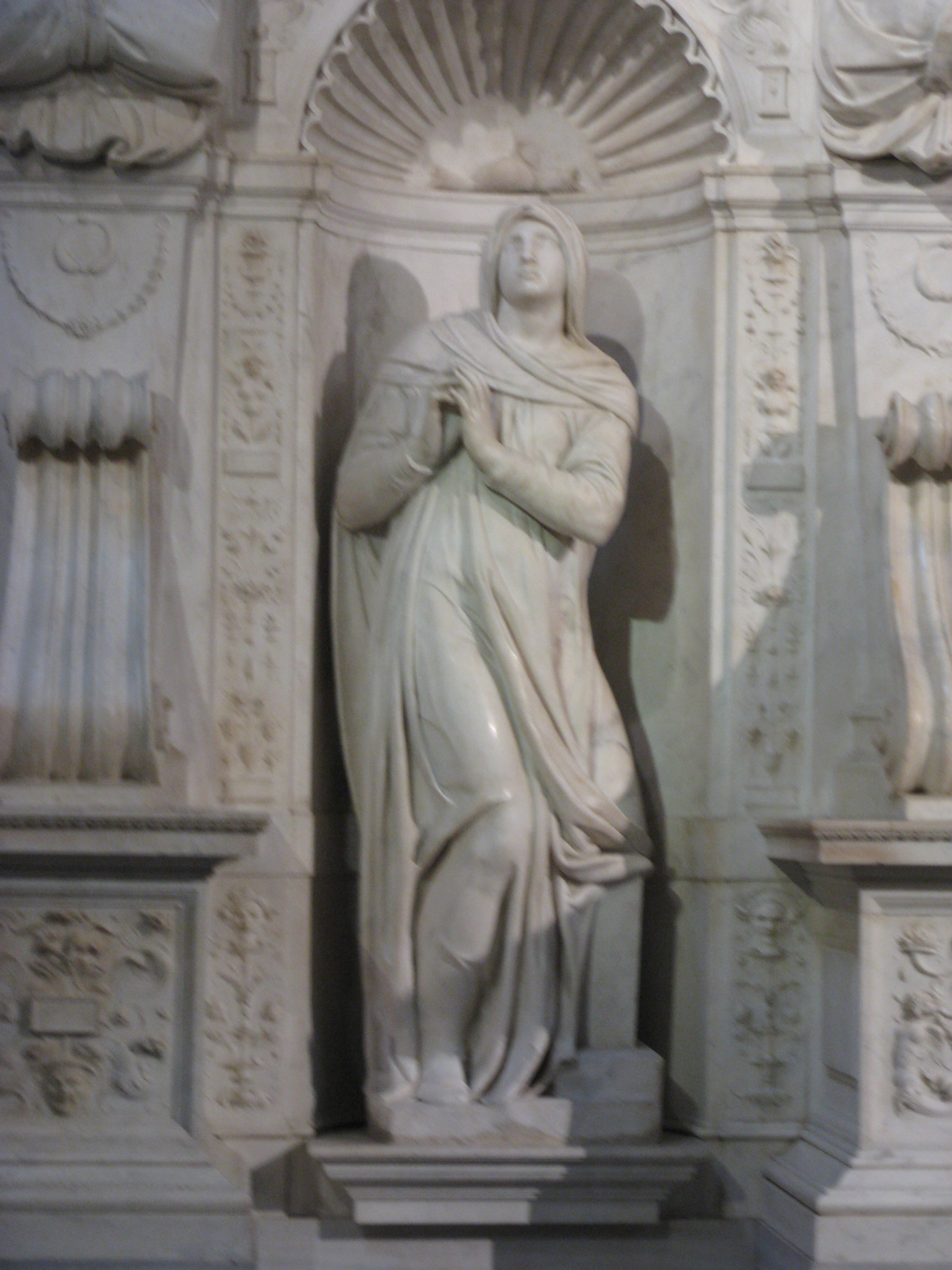 Michelangelo's Rachel at Michelangelo's grave for Julius II at San Pietro in Vincoli.